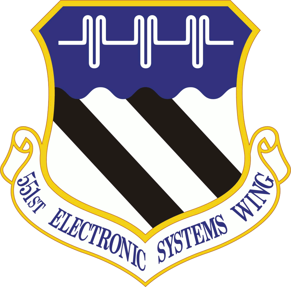 Emblem of the 551st Electronic Systems Wing, a wing of the United States Air Force